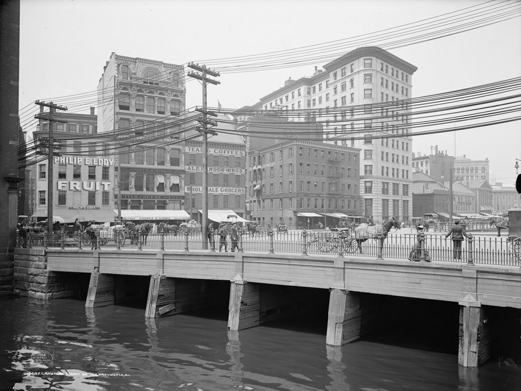 Westward-looking view of Crawford Street Bridge over the Providence River in Providence, Rhode Island, USA Outside of what is now Memorial Park